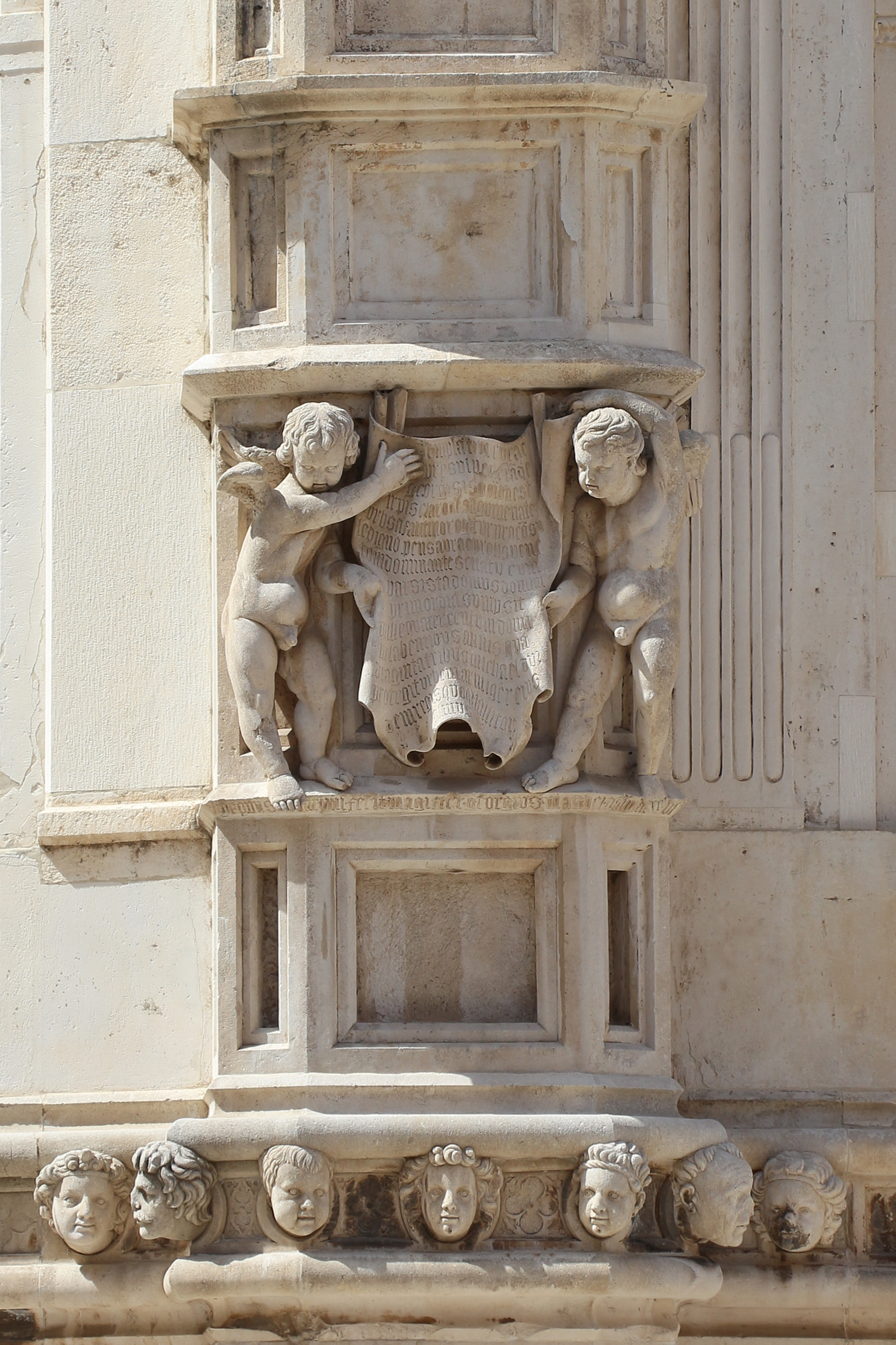 Sculptures on the Cathedral of St. James, Šibenik, Croatia